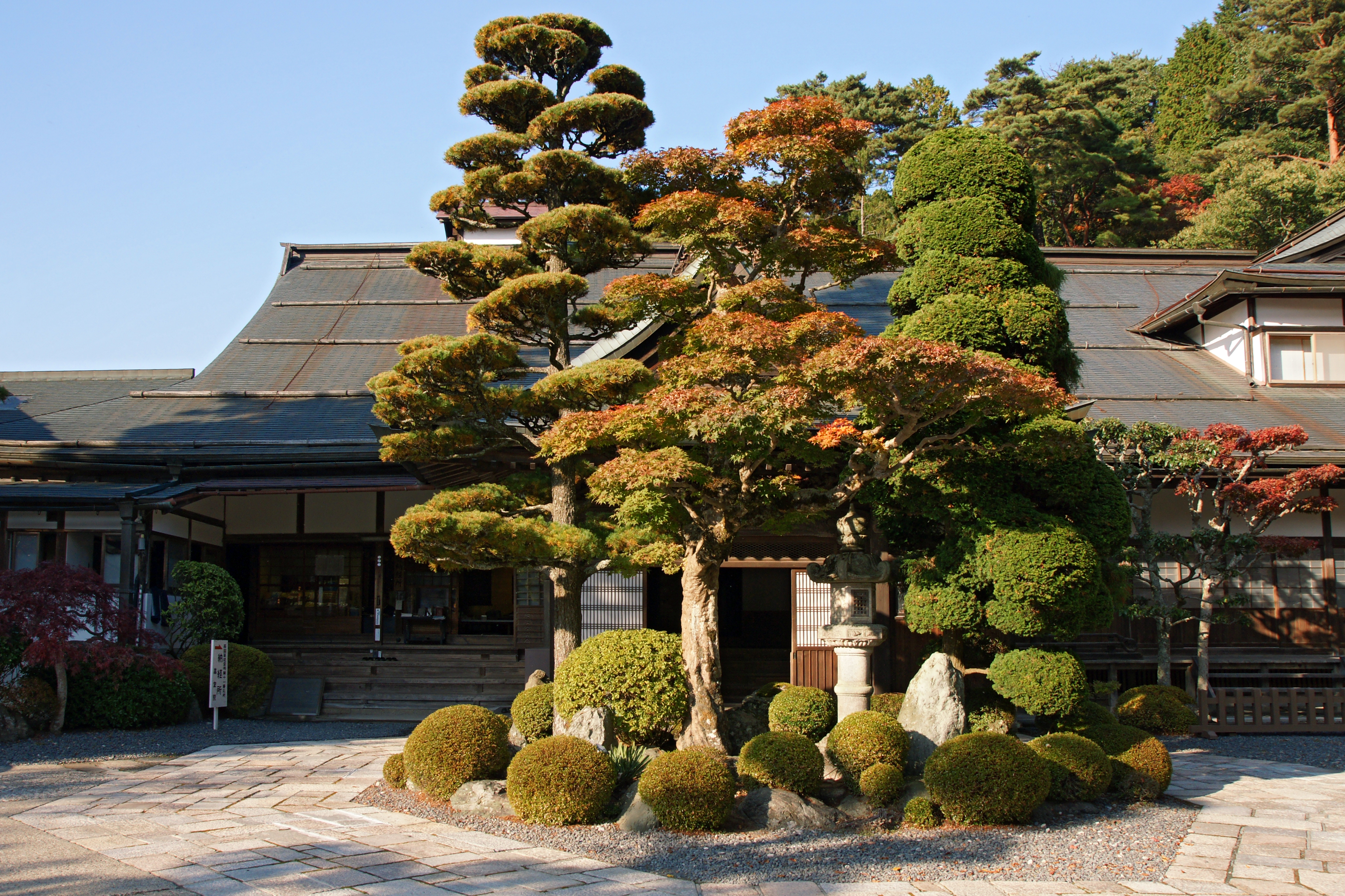 Takamuroin in Mount Kōya, Wakayama prefecture, Japan.